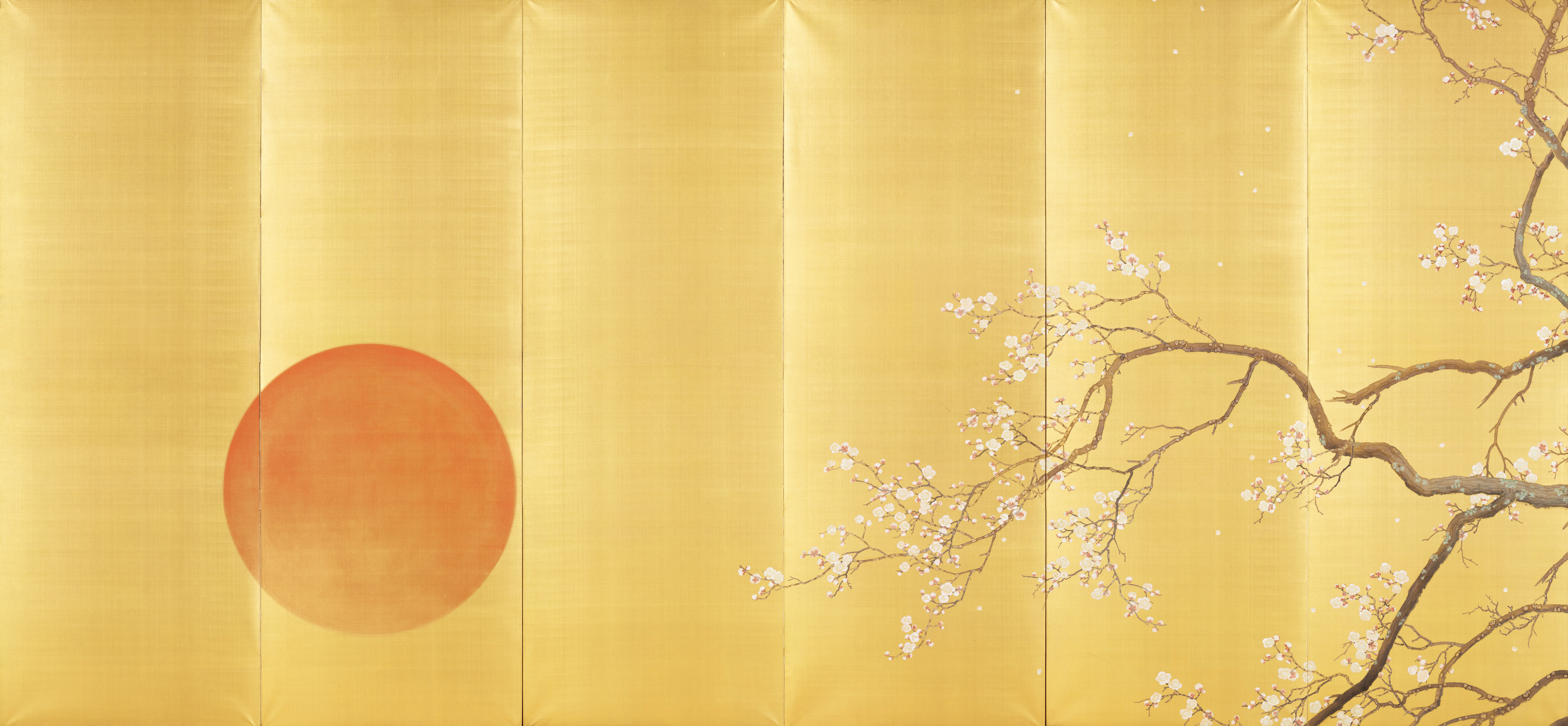 Yoroboshi, by Shimomura Kanzan, Tokyo National Museum, Japan